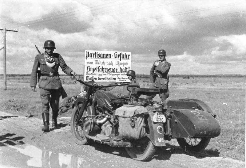 Russia. Military police in guerrilla territory.